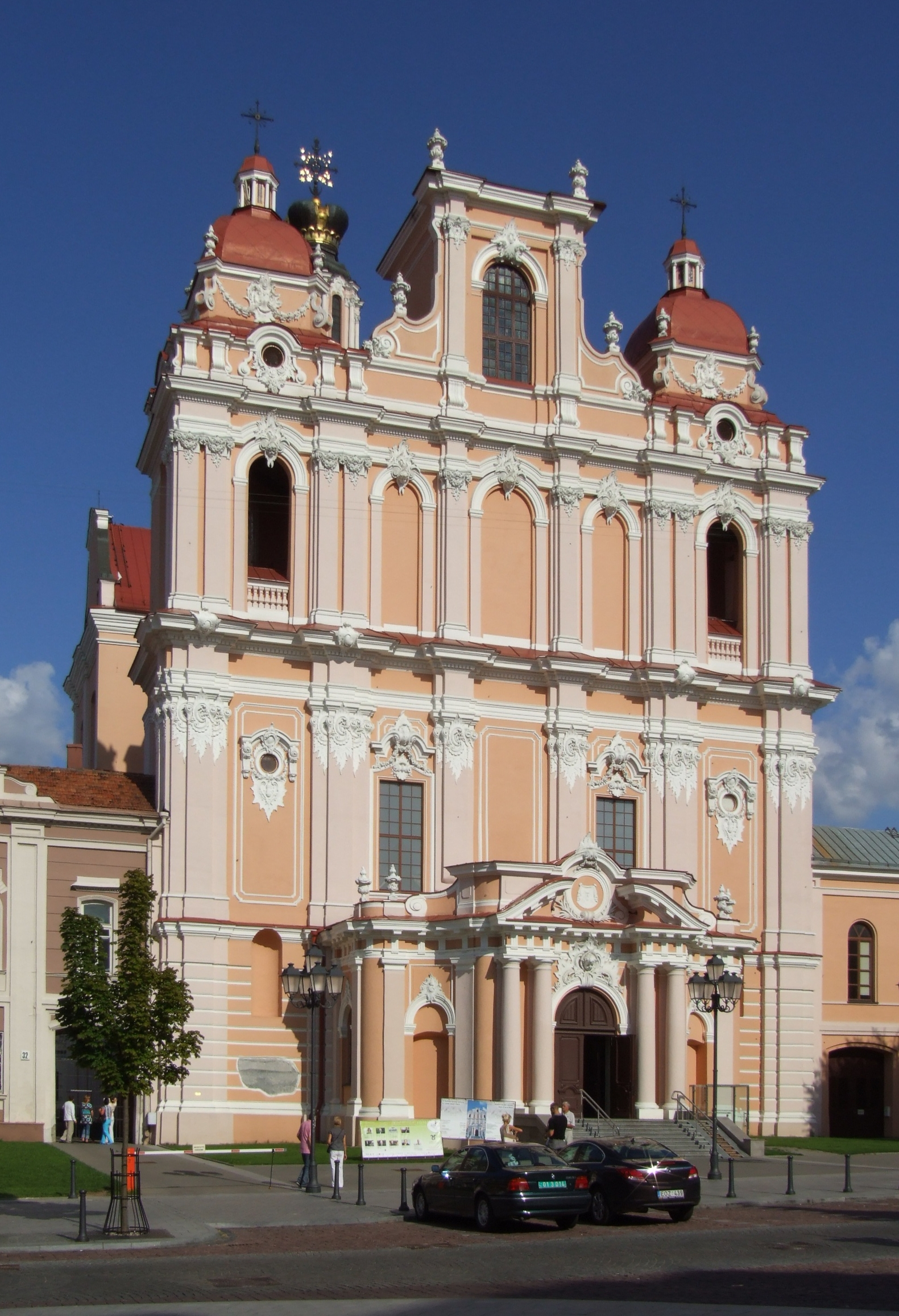 Church of St. Casimir in Vilnius (Wilno, Wilna)